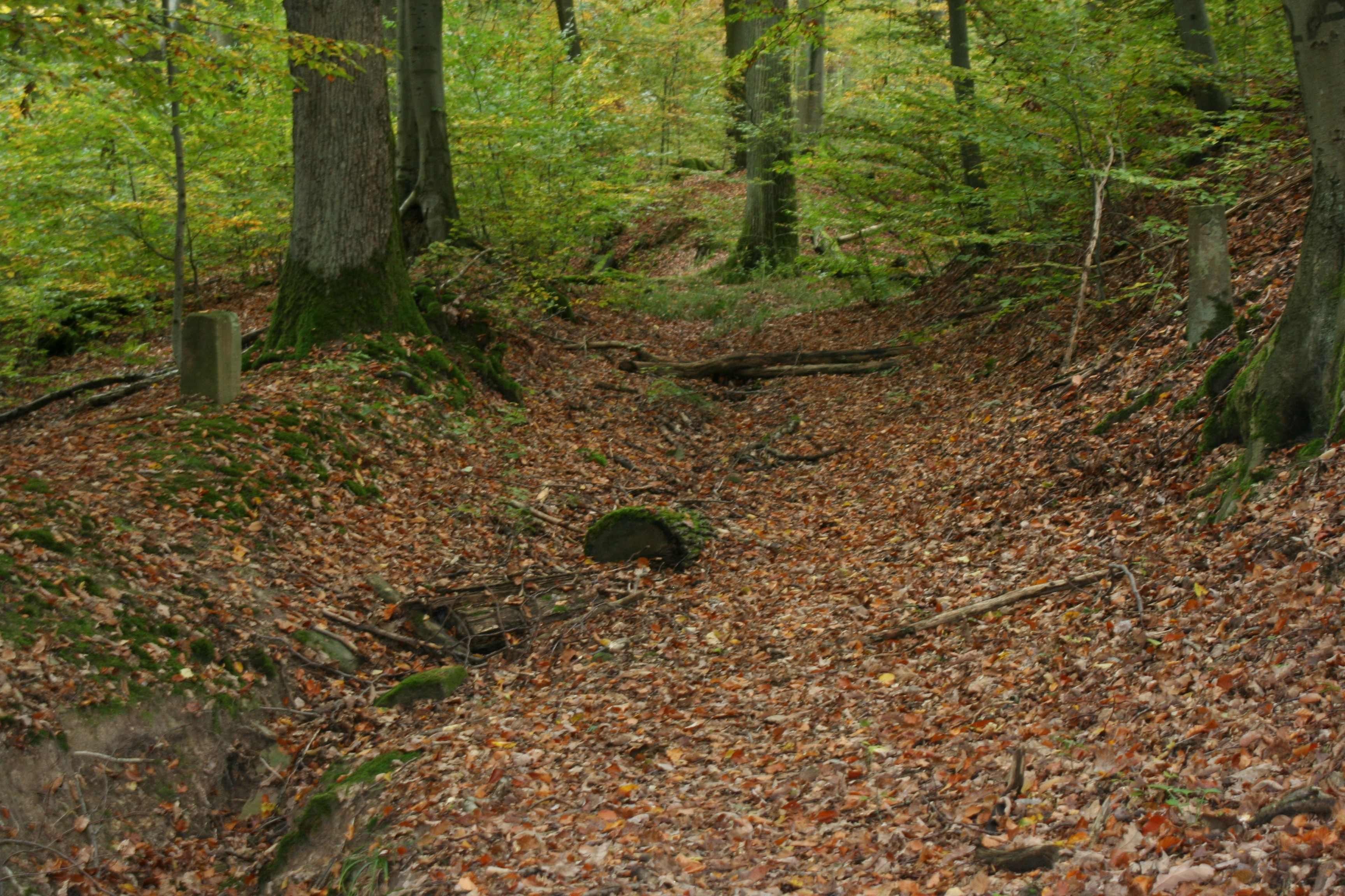 The so-called Doppelt versteinte Hällische Straße (road with two rows of boundary stones) between Weinsberg and Heilbronn